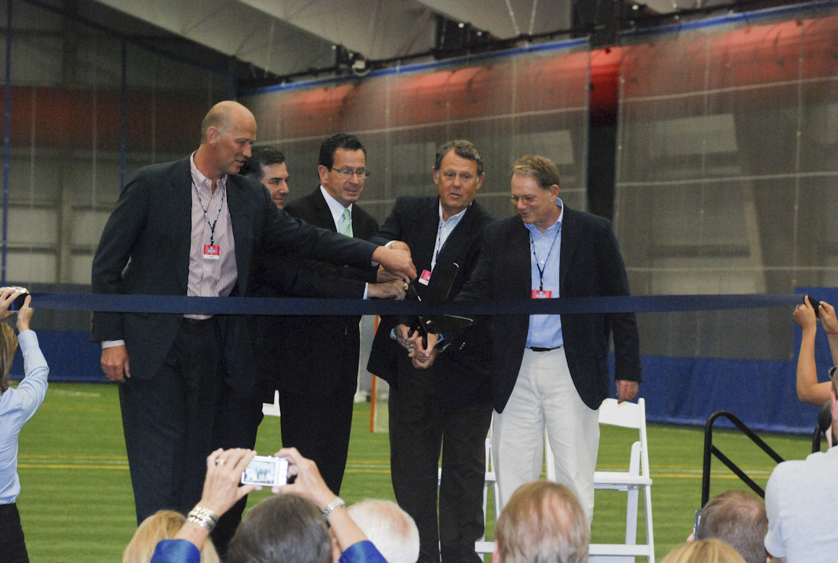 Thursday, June 28, 2012 -- Governor Dannel P. Malloy participated in the opening ceremony for Chelsea Piers in Stamford, where the company opened a three-story, 417,000 square-foot sports and entertainment complex featuring two National Hockey League-size ice skating rinks, an Olympic-size swimming pool, a recreational water park, space for food vendors, basketball courts, volleyball courts, squash courts, tennis courts, a 60,000 square-foot playing field, and much more.